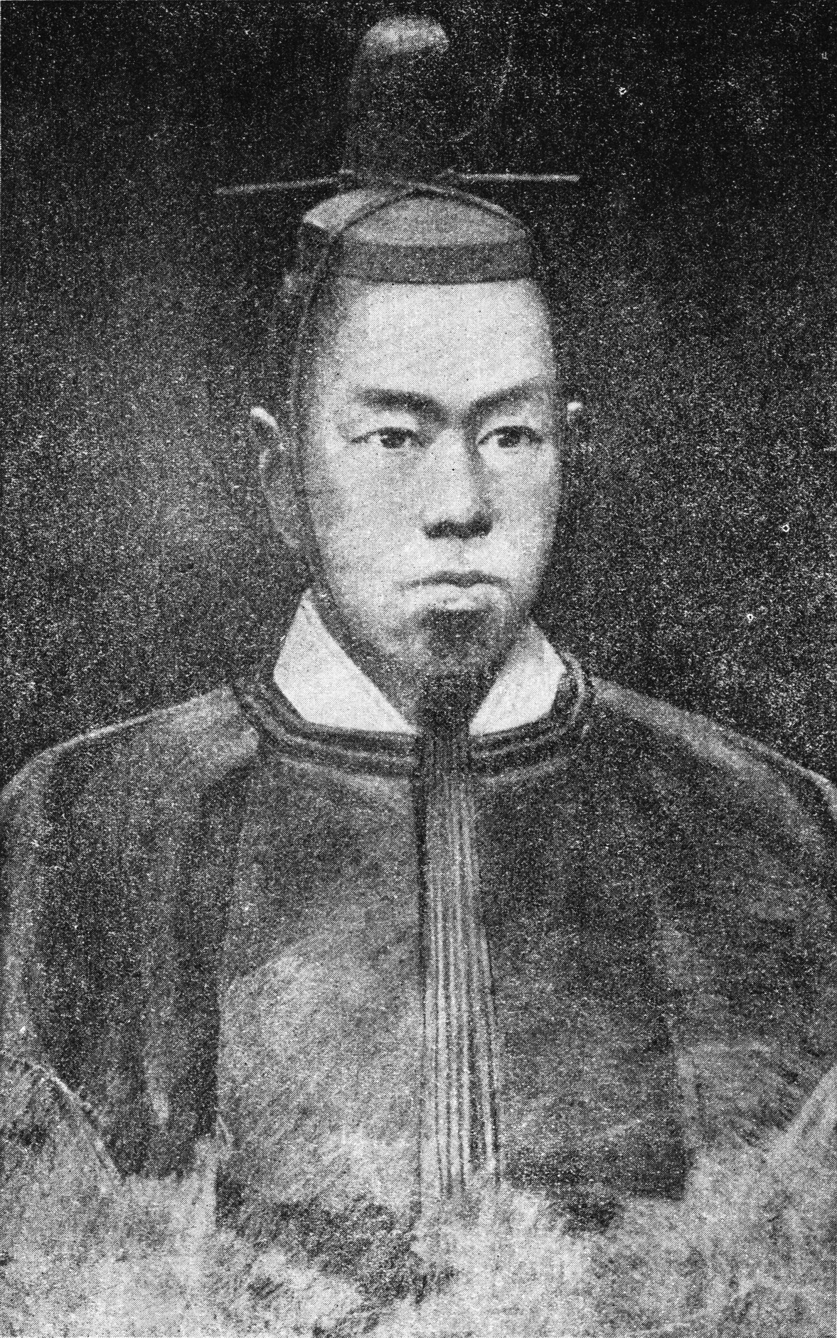 Portrait of the Emperor Kōmei